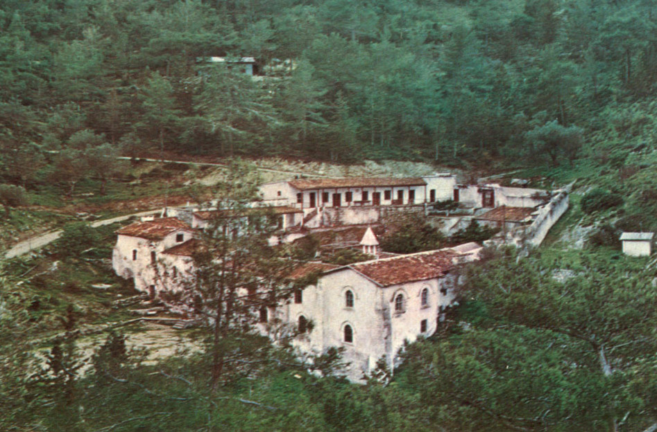 The Magaravank before 1974